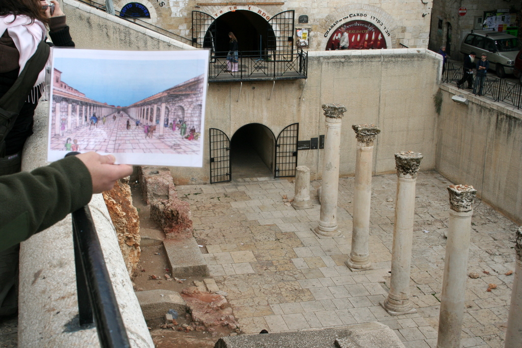 Relics of the Roman Cardo in Jerusalem Now & Then.